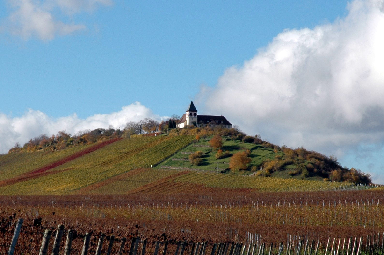 Michaelsberg near Cleebronn.